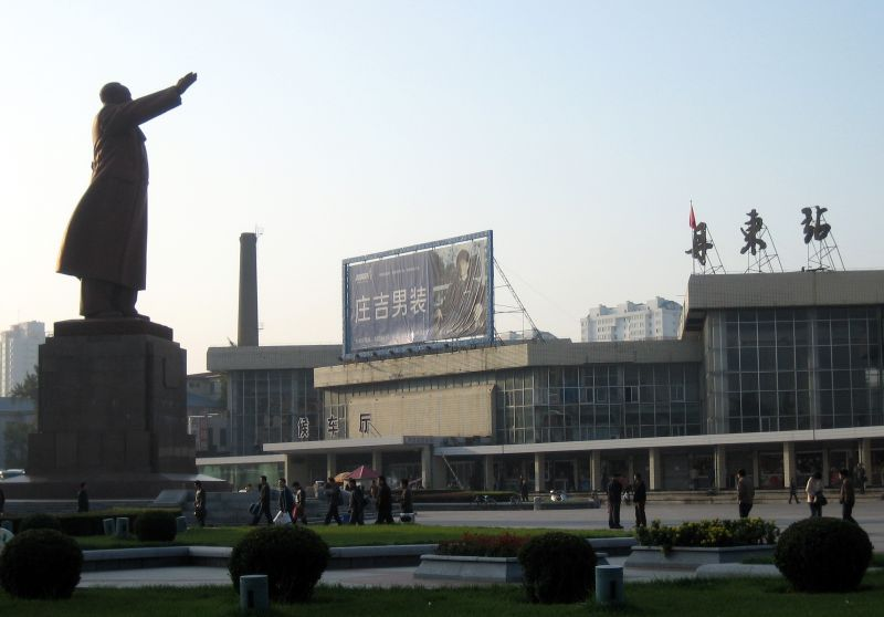 Mao statue at Dandong railway station.